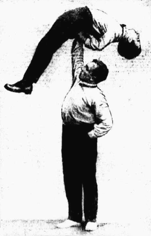 Original Caption: Billy Meeske, who defends his Australian wrestling title against Dave Smith next Wednesday night. "He won't handle me like that," said Smith when he saw the photograph.